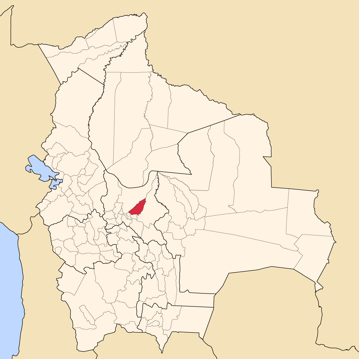 Map of Bolivia showing Tiraque province